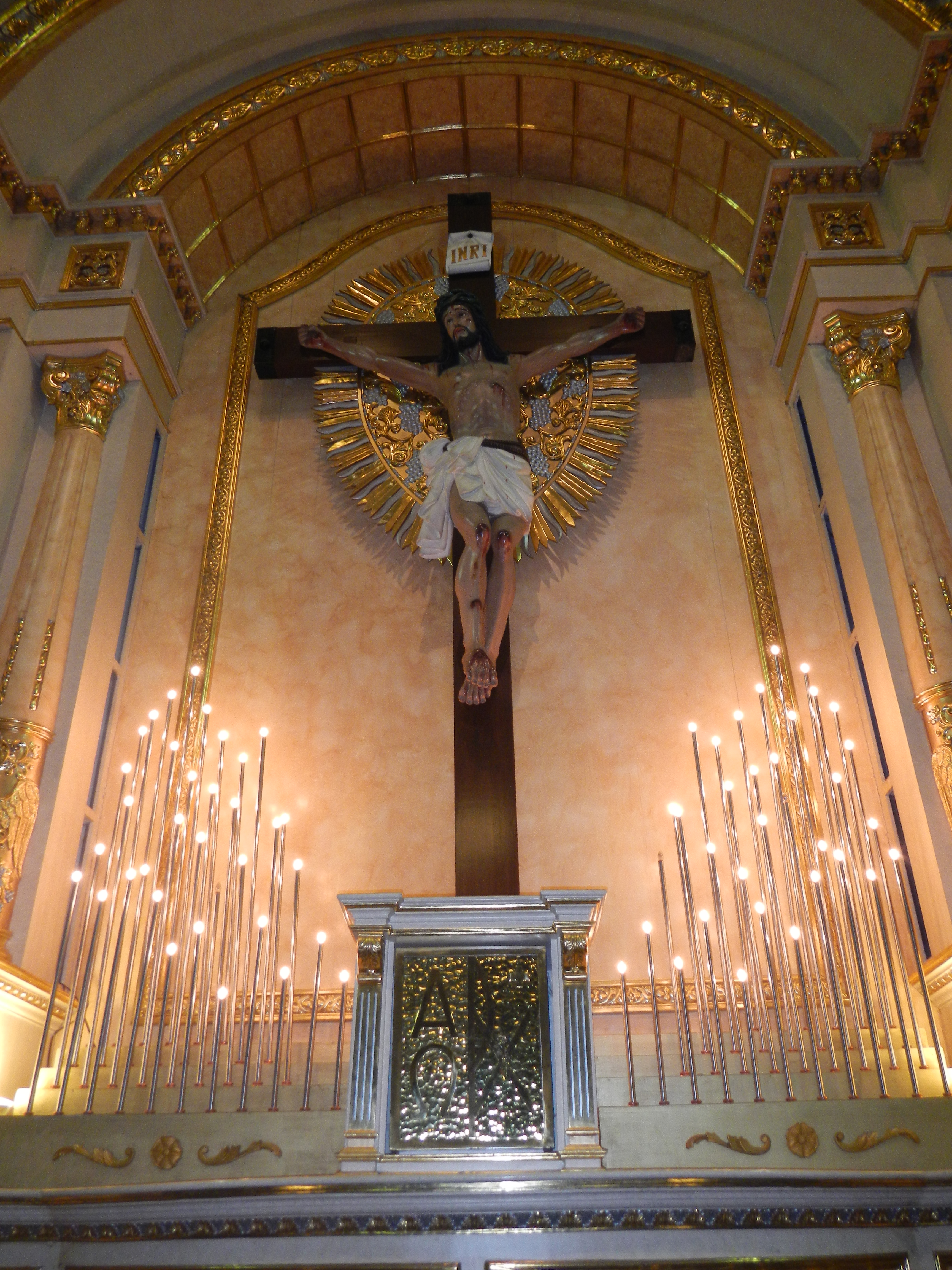 1760 Our Lady of Light Parish[1] (F-1760, A. Bonifacio Ave., San Andres, Poblacion, Cainta, Rizal) - Rev. Msgr. Arnel F. Lagarejos, Parish Priest[2]Vicariate of Our Lady of Light The Parish of Our Lady of Light in Cainta stands as one of the oldest churches in the Province of Rizal. It is located along A. Bonifacio Avenue in the Town Proper of Cainta it is near the famed jeepney stop Parola, and is very accessible through the jeeps that come from Cubao, Pasig, Tanay, Taytay, Binangonan and Eastern Rizal. The present parish priest, installed in 2006 is Rev. Msgr. Arnel Lagarejos, STh.D, with Rev. Fr. Virgilio Lachica as parochial vicar. Cainta[3] (The Municipality of Cainta (Filipino: Bayan ng Cainta) is a first-class urban municipality in the province of Rizal, Philippines. It is one of the oldest (originally founded on August 15, 1571), and is the town with the second smallest land area of 26.81 square kilometres (10.35 sq mi) next to Angono with 26.22 square kilometres (10.12 sq mi)).[4]Coordinates: 14°34'40"N 121°6'55"E[5][6] [7] Cainta to hold episcopal coronation of Our Lady of Light; Pasig to inaugurate diocesan museum on Dec. 1, 2013 6:30 p.m.]Most Rev. Gabriel V. Reyes, Bishop of Antipolo, installed Msgr. Arnel Fuentes Lagarejos as Parish Priest of Our Lady of Light Parish and as President of Cainta Catholic College.[8]